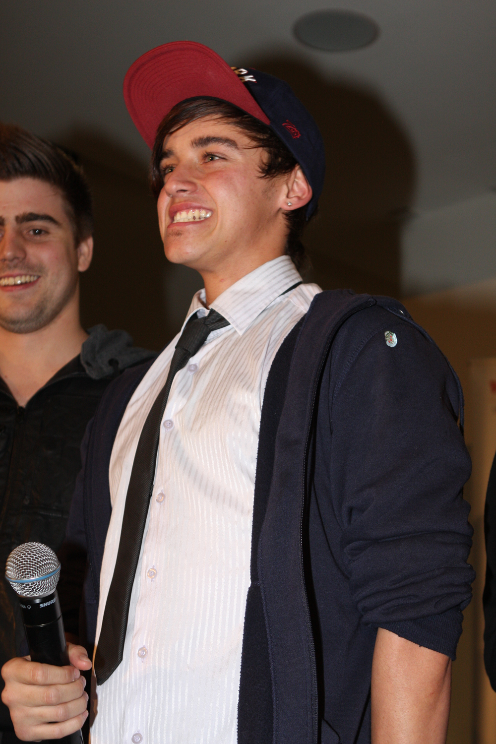 Janoskians appearance at Liverpool, Westfield